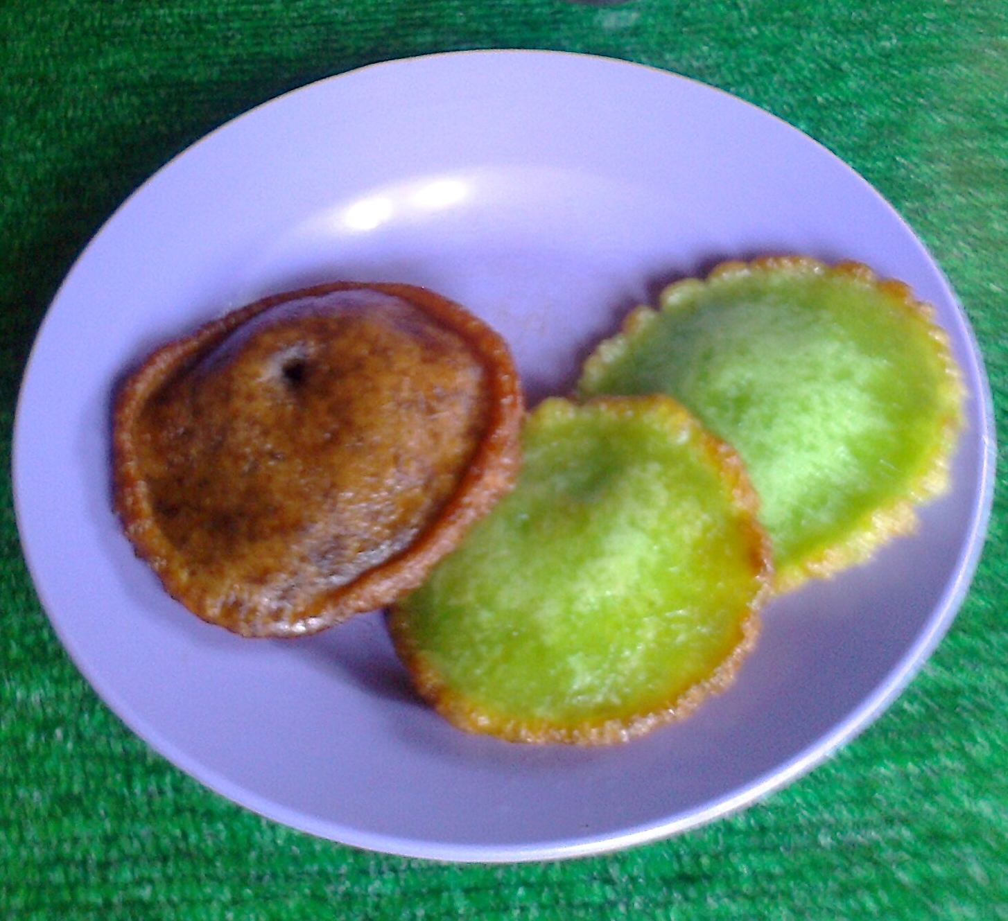 Kuih pinjaram.